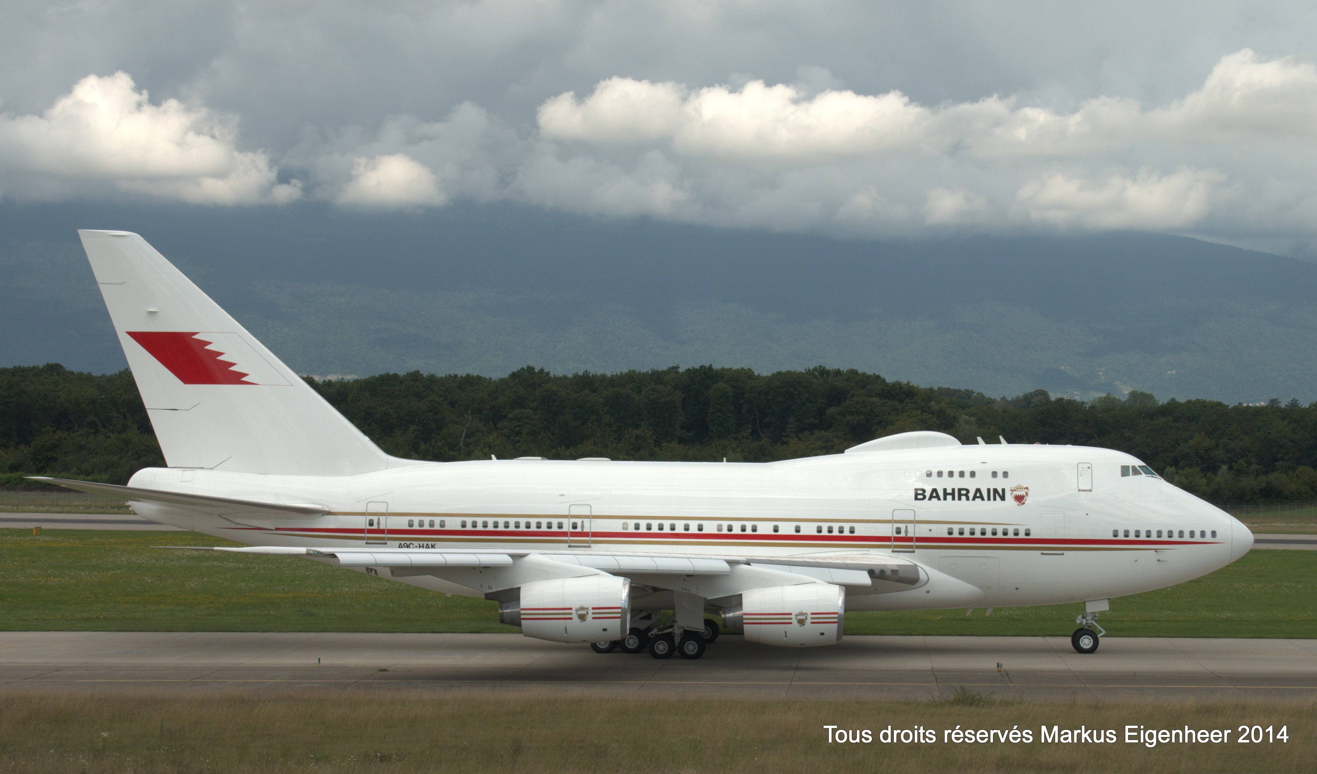 GVA 04.08.2014